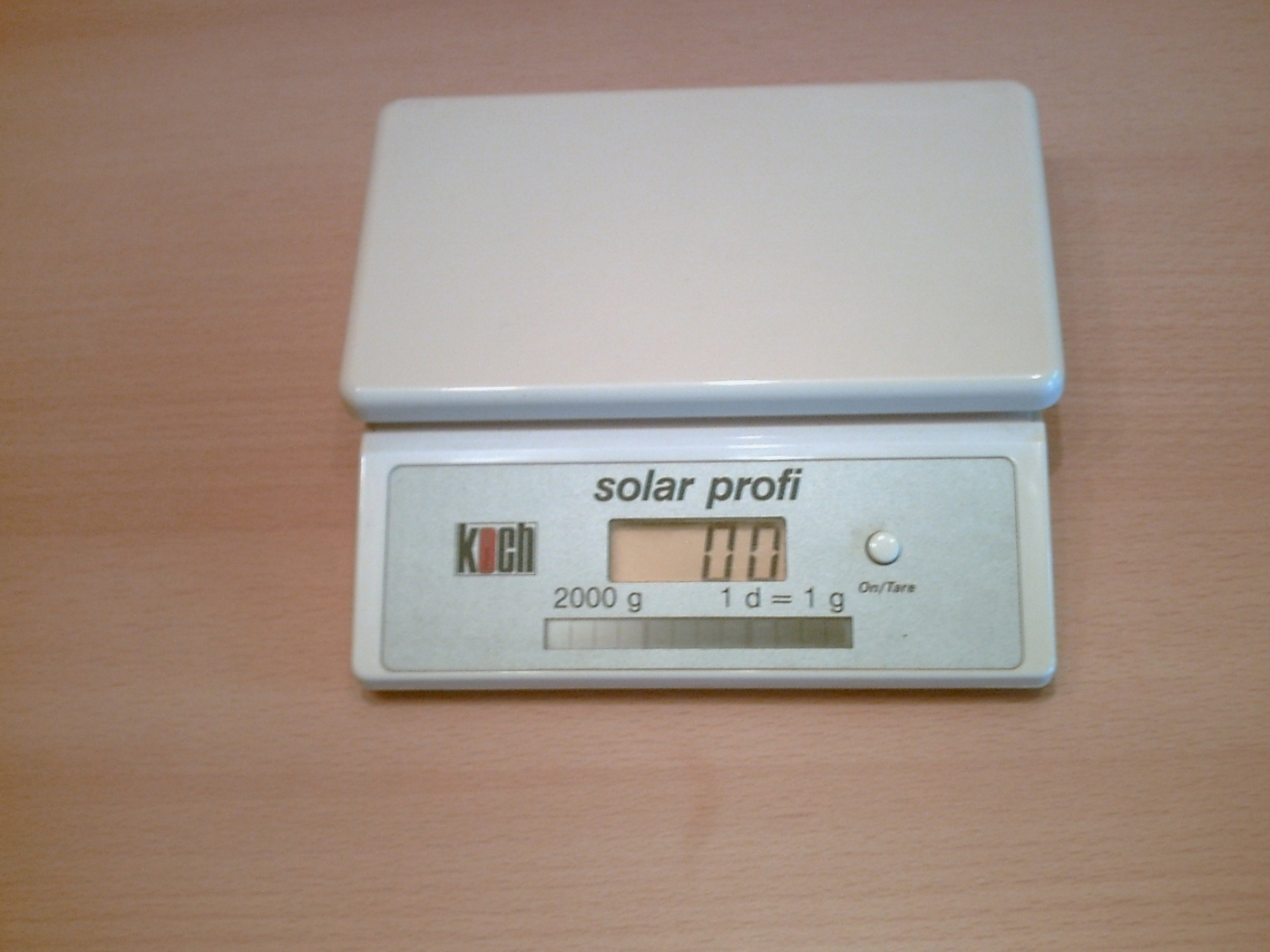 Electronical letter scale with solar cells